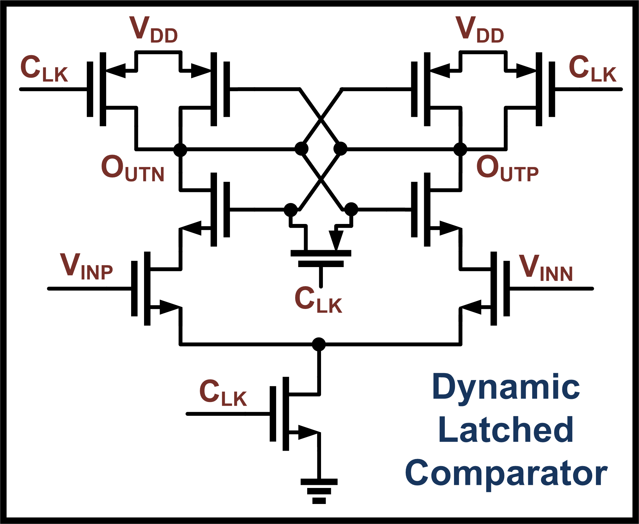 A schematic of a CMOS clocked comparator